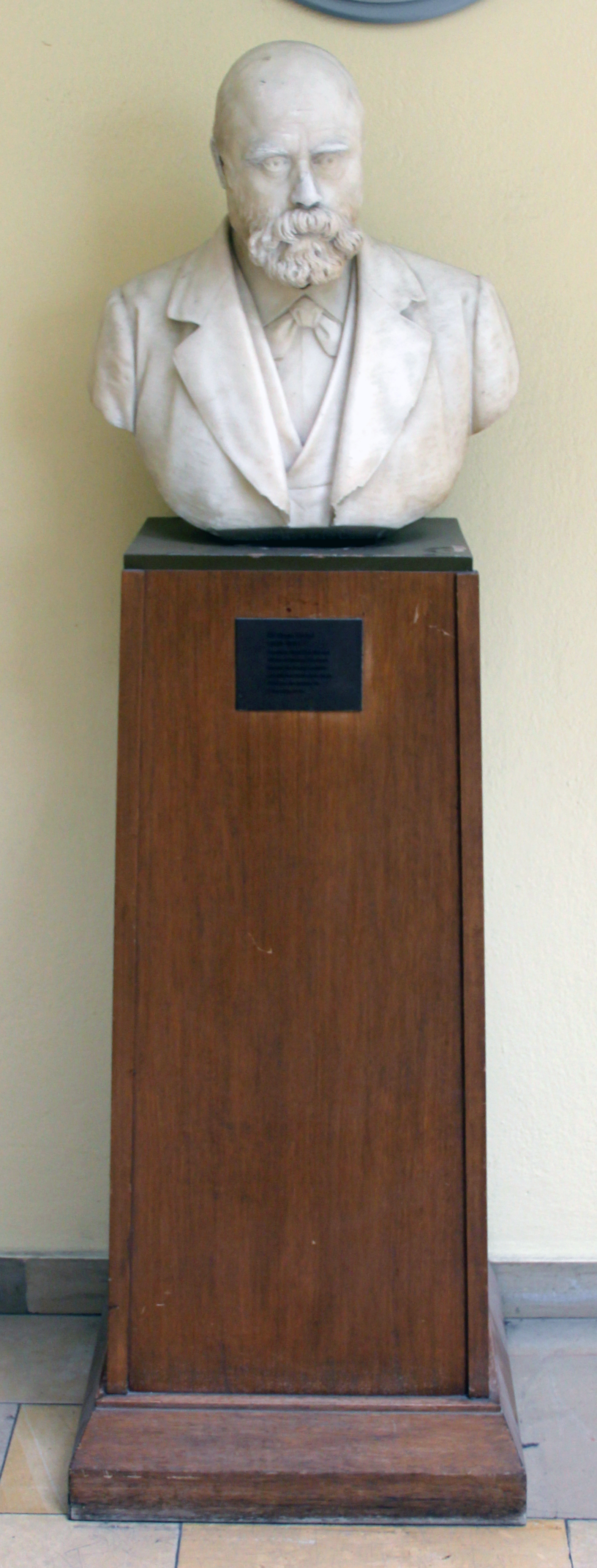 Bust, Hugo Thiel, Seestraße 13, Berlin-Wedding, Germany